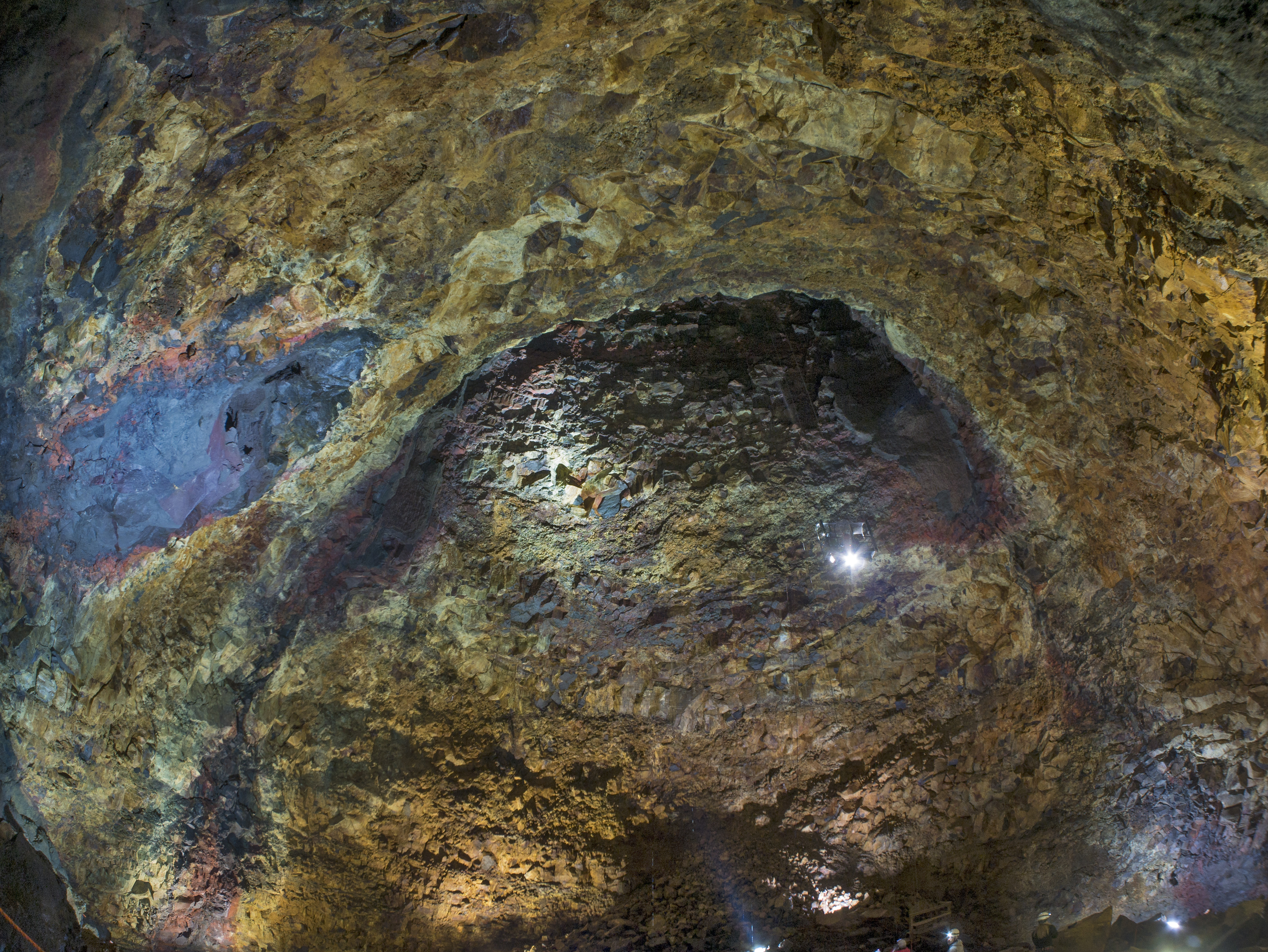 This is a magma chamber inside a volcano in Iceland called lava called Thrihnukagigur. An open conduit leads 120 m to the surface and visitors are lowered in a cable car.